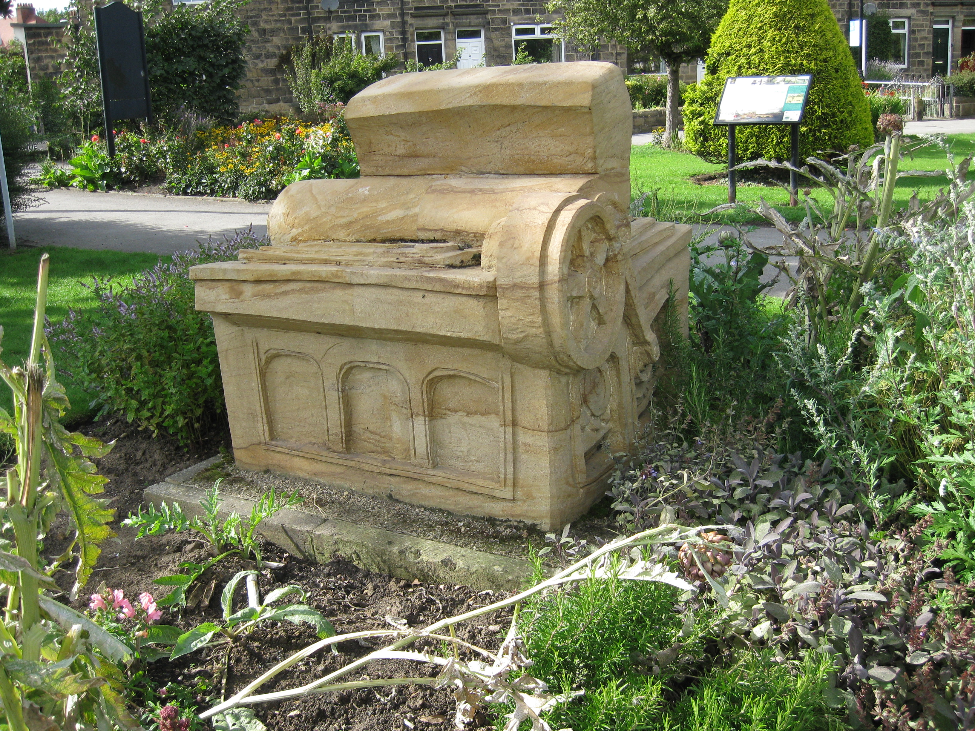 Sandstone sculpture of a Wharfedale Press. This was a printing machine invented and manufactured in Otley in the 19th century. Sculptor Shane Green. Commissioned by Otley Town Council for the Diamond Jubilee of Queen Elizabeth II. In Wharfedale Meadows Park, Otley.